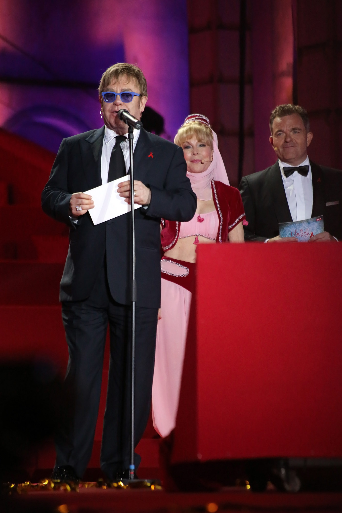 Barbara Eden, Sir Elton John (Elton John AIDS Foundation) and Cornelius Obonya, opening show of Life Ball 2013 at the city hall of Vienna, Vienna, Austria.